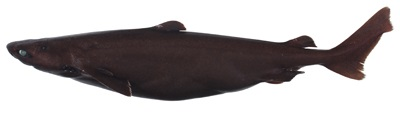 Portuguese dogfish (Centroscymnus coelolepis)